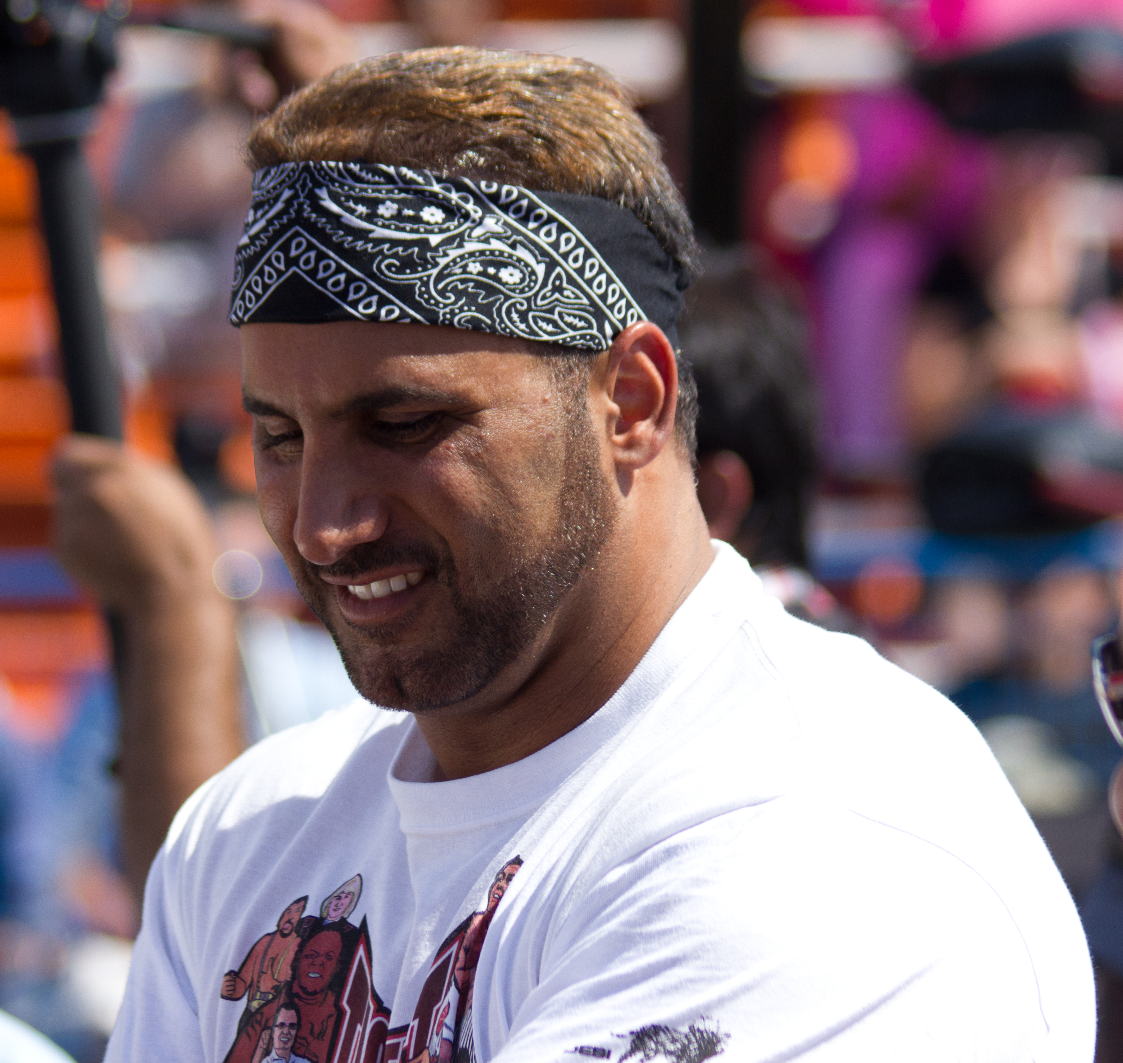 Professional wrestler Tiger Ali Singh